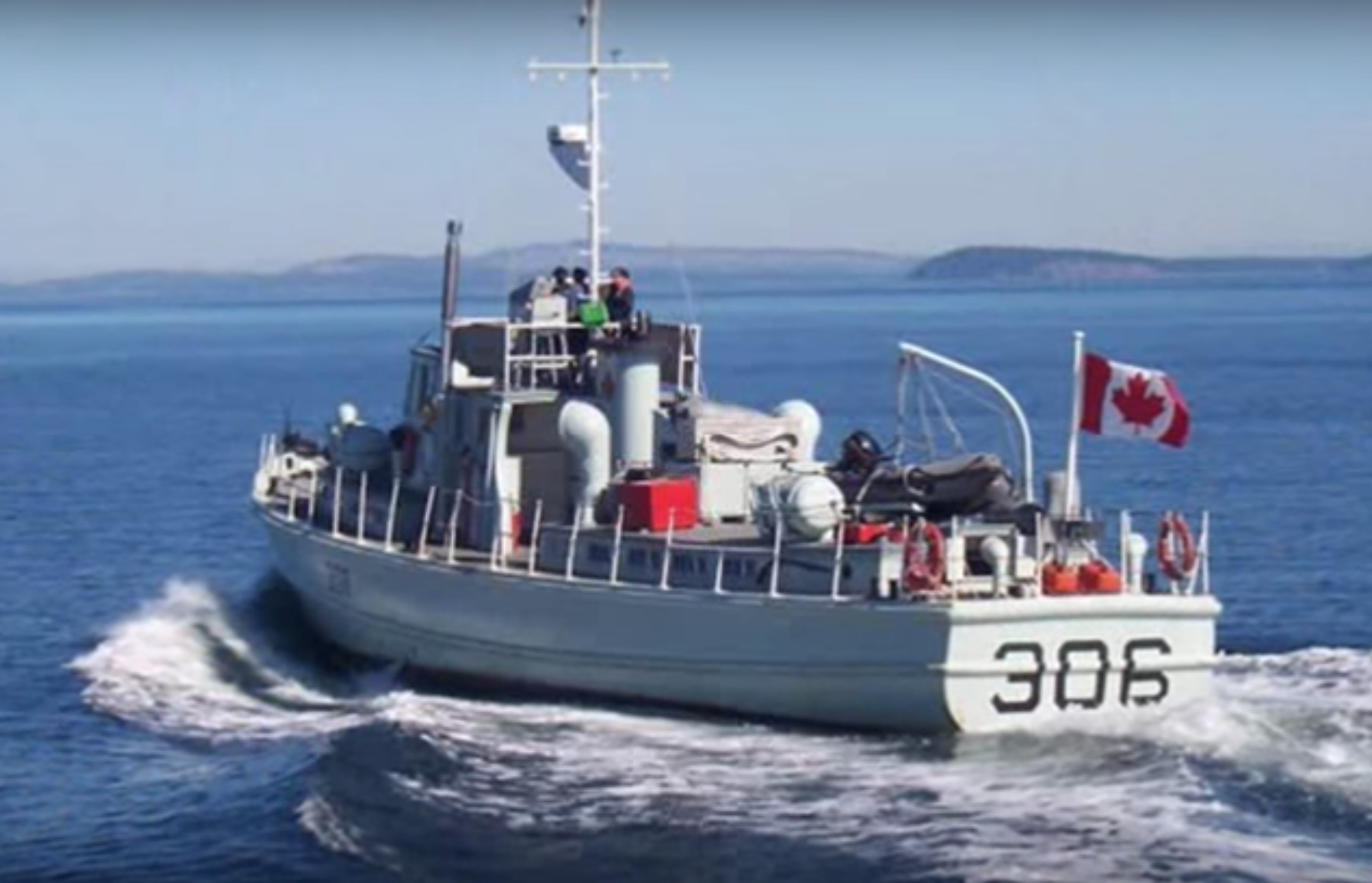 CFAV Grizzly (YAG 306) on a 4-day trip around the Gulf Islands of Vancouver Island.